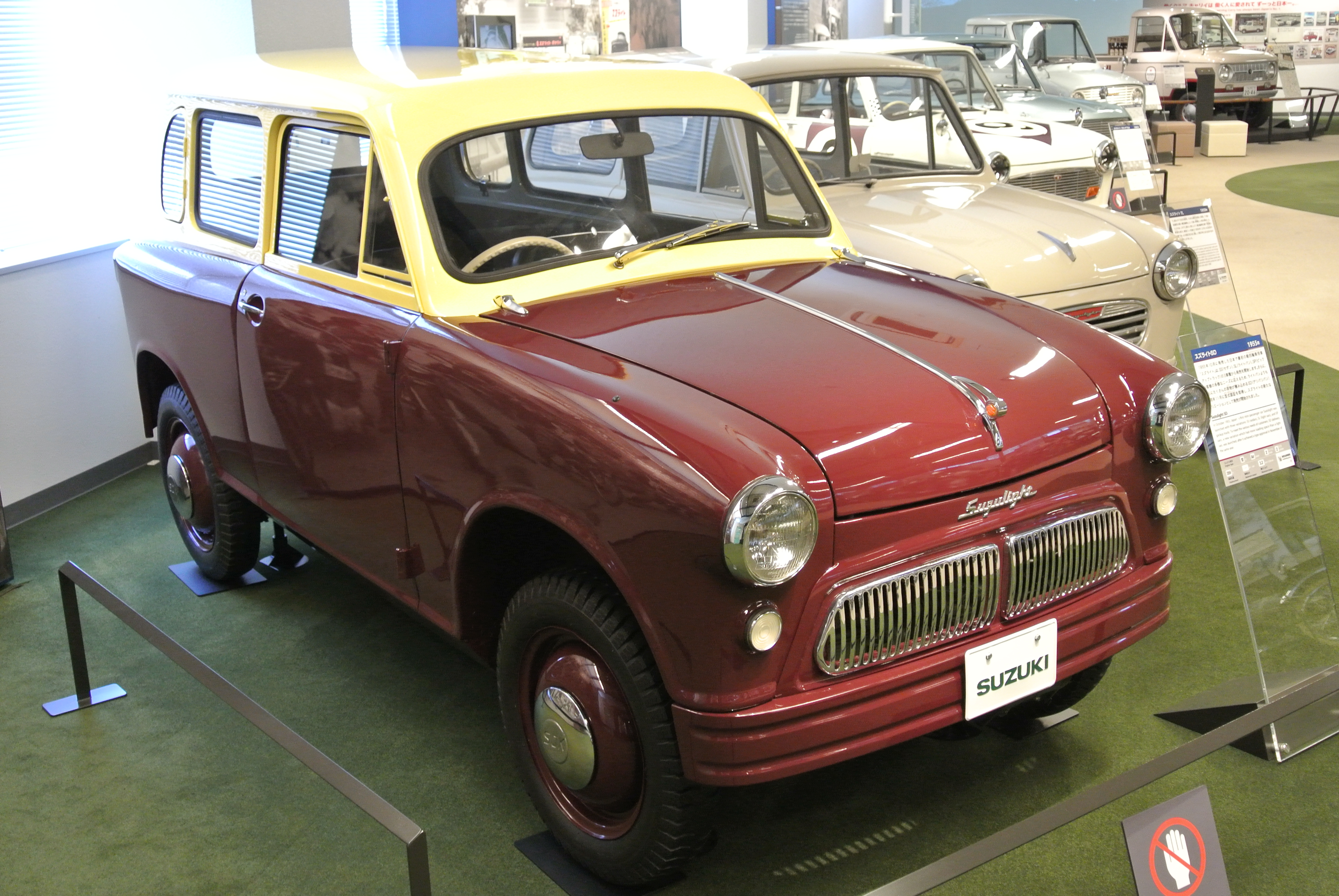 1955 Suzuki Suzulight SD in the Suzuki History Museum.